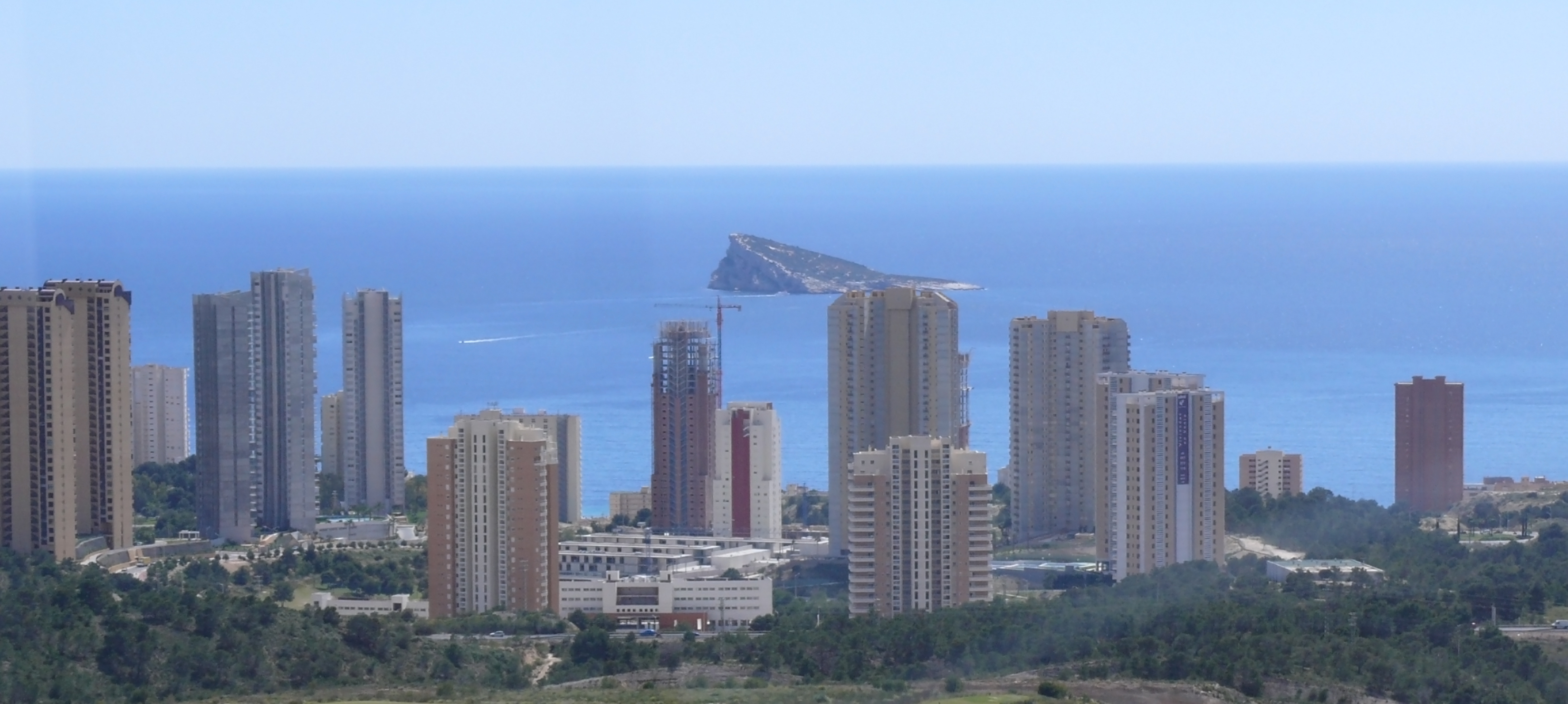 The skyline of Benidorm. Benidorm is a Valencian coastal town and municipality located in the province of Alicante, Spain, by the Mediterranean Sea. It is a very popular seaside resort.